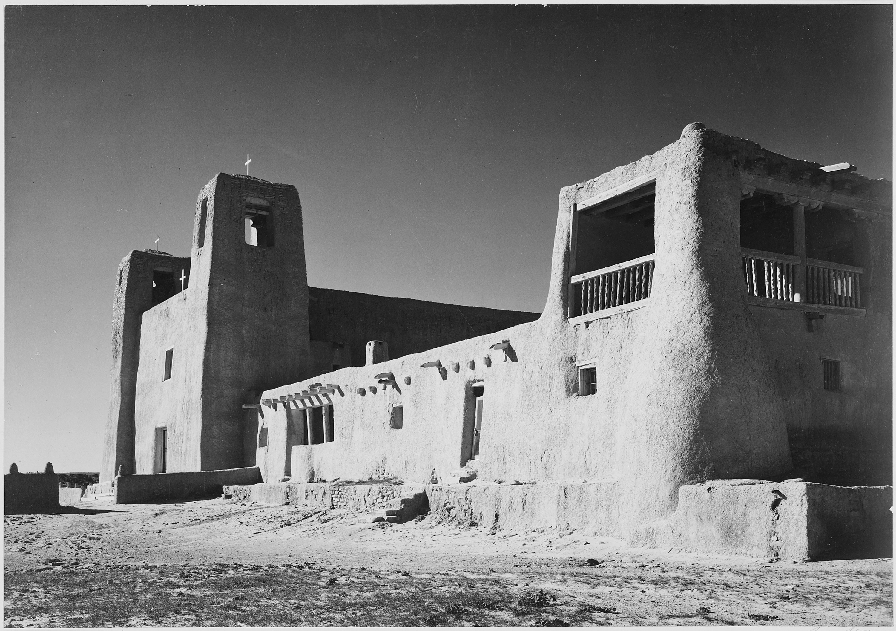 Corner view showing mostly left wall, "Church, Acoma Pueblo [National Historic Landmark, New Mexico]." [Misicn de San Estevan del Rey, Acoma]; From the series Ansel Adams Photographs of National Parks and Monuments, compiled 1941 - 1942, documenting the period ca. 1933 - 1942.